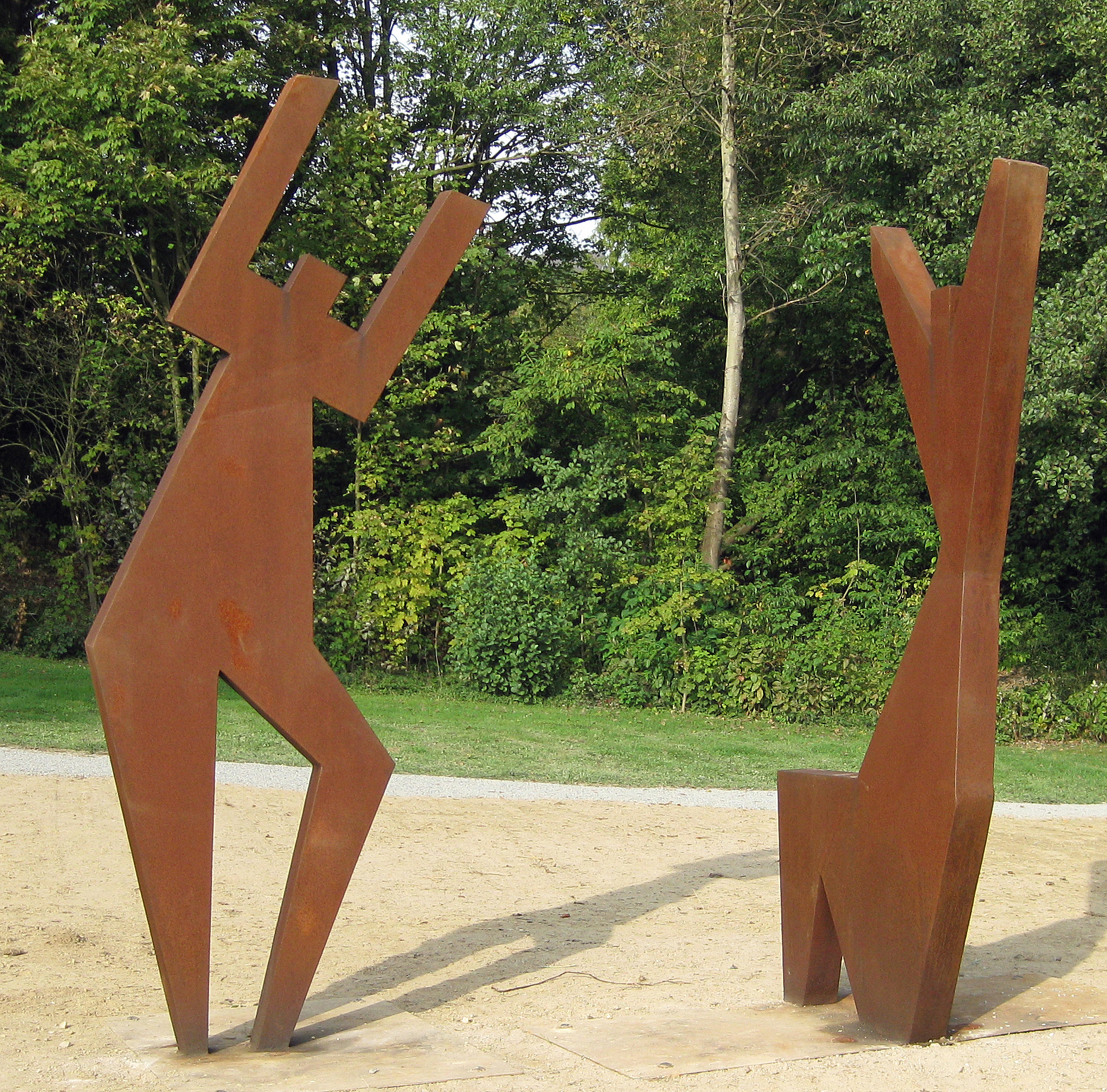 The new metal sculpture of Rose Gilissen. A lending sheaf to the art association Nümbrecht.